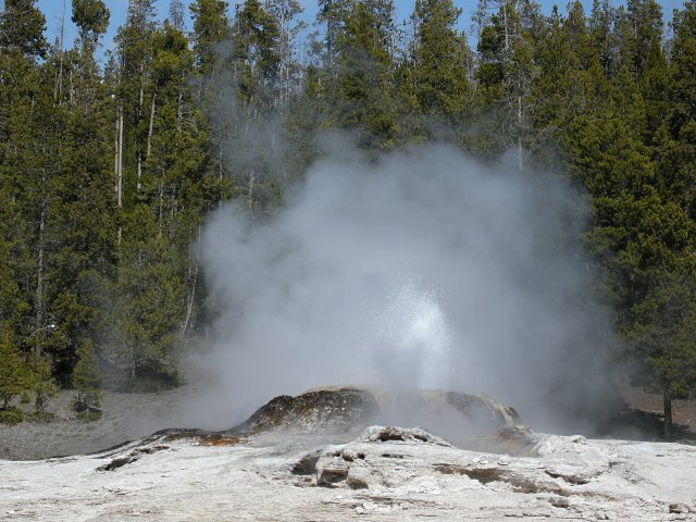 Bijou Geyser, Yellowstone National Park Photo by Richard Ellis